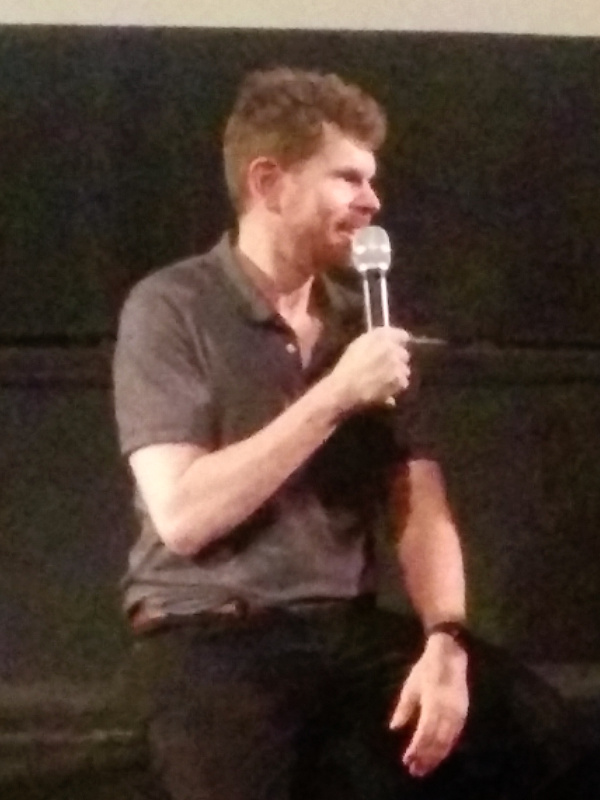 Stu Maddux at a Q&A for Reel in the Closet at the Roxie Theater in San Francisco, California, United States